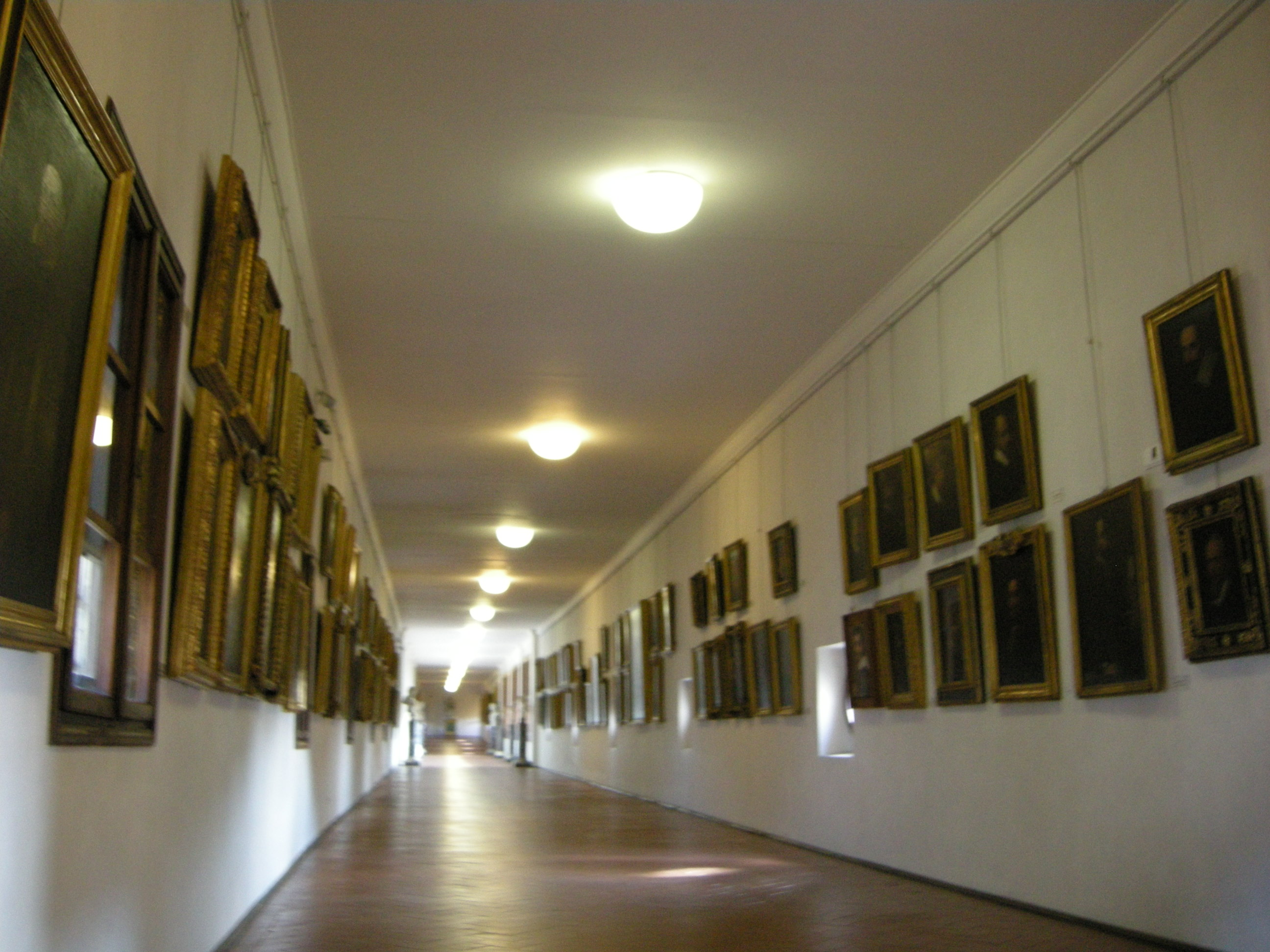 Bust of Pietro Mellini by Benedetto da Maiano